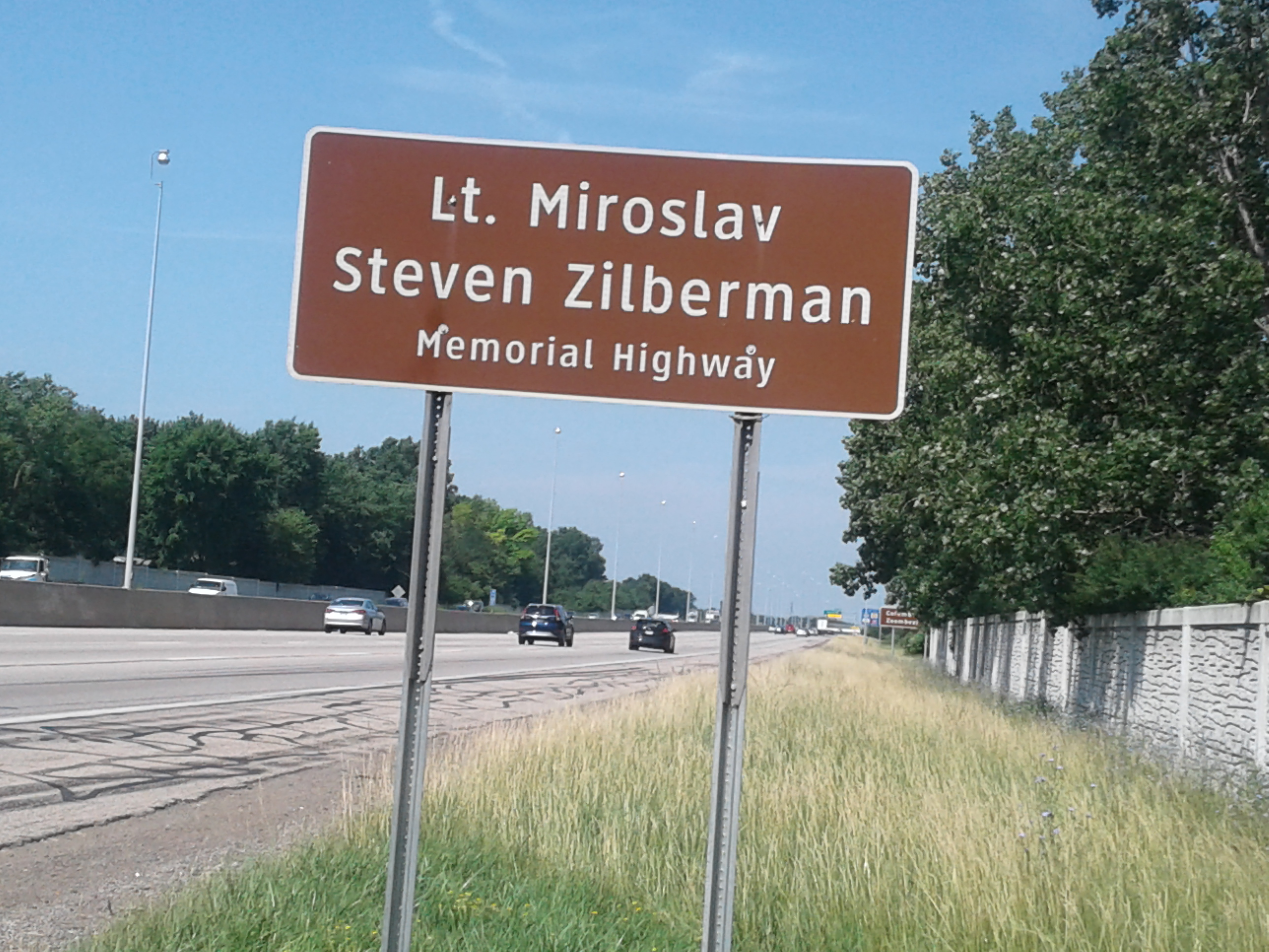 The portion of Interstate Route 270, commencing at the intersection of that interstate route and United States Route 33 in southeast Franklin County and proceeding in a westerly, then northerly, and then easterly direction to the intersection of that interstate route and State Route 315 in northwest Franklin County, as the "Lt. Miroslav Steven Zilberman Memorial Highway." Naval aviator Lt. Miroslav Steven Zilberman died on March 31, 2010, after his aircraft crashed into the Arabian Sea while on the return trip from a mission in Afghanistan.